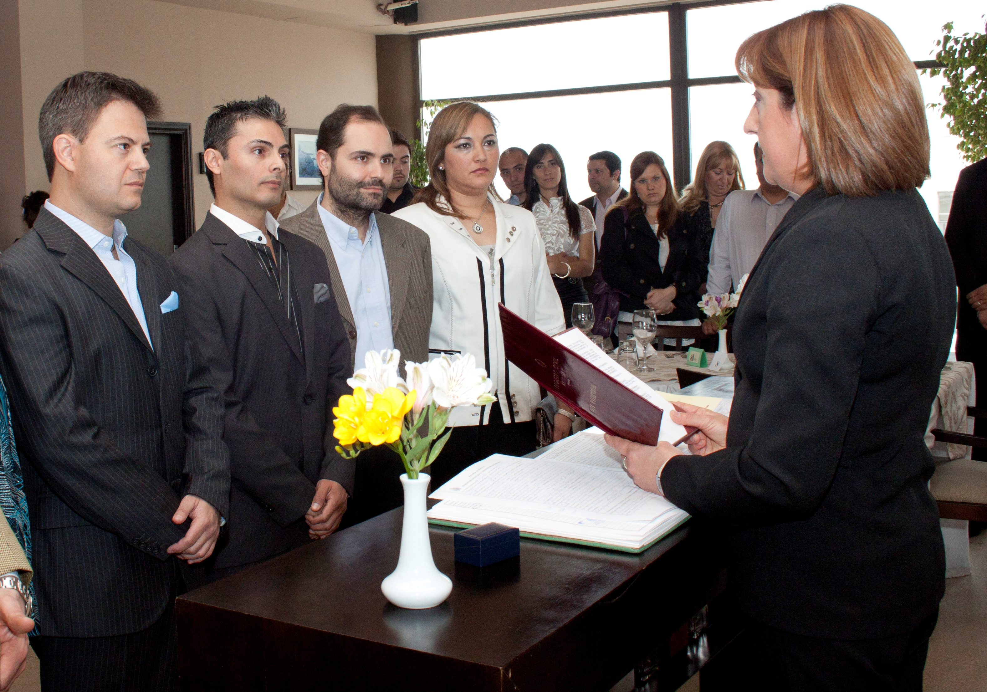 Argentinean Singer Carlos Morell's gay marriage